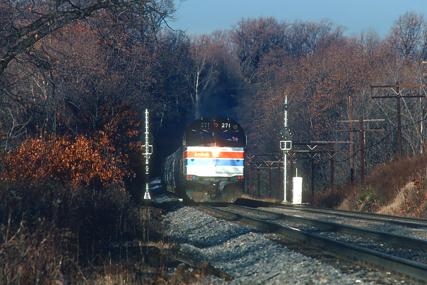 Amtrak locomotive #271 with the Blue Ridge in December 1980